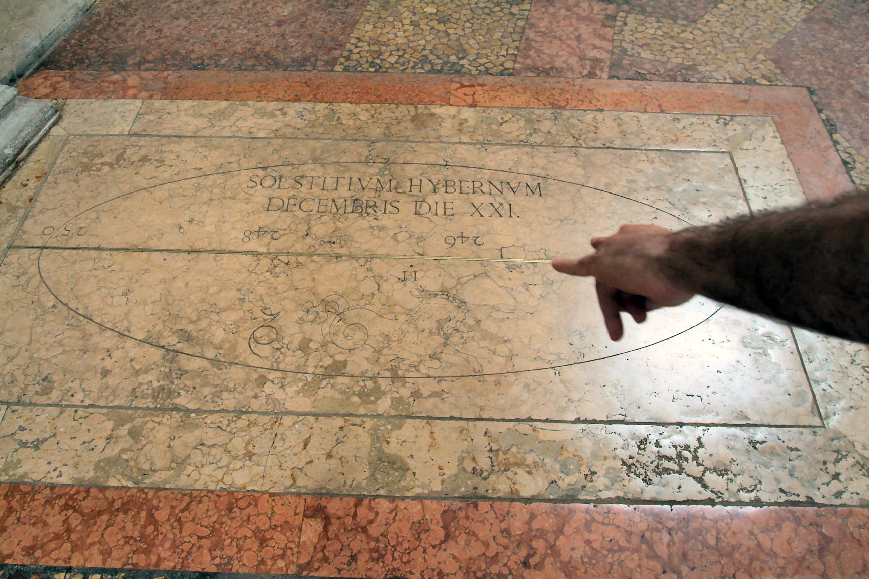 The meridian line sundial inscribed on the floor at the San Petronio Basilica in Bologna, Emilia Romagna, northern Italy. An image of the Sun produced by a pinhole gnomon in the churches vaults 66.8 meters (219 ft) away fills this 168x64 cm oval at noon on the winter solstice.